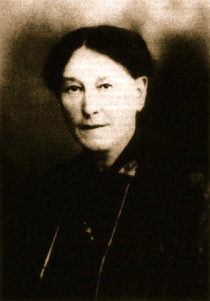 Thekla Landé als Stadtverordnete im Wuppertaler Stadtparlament, Foto um 1930